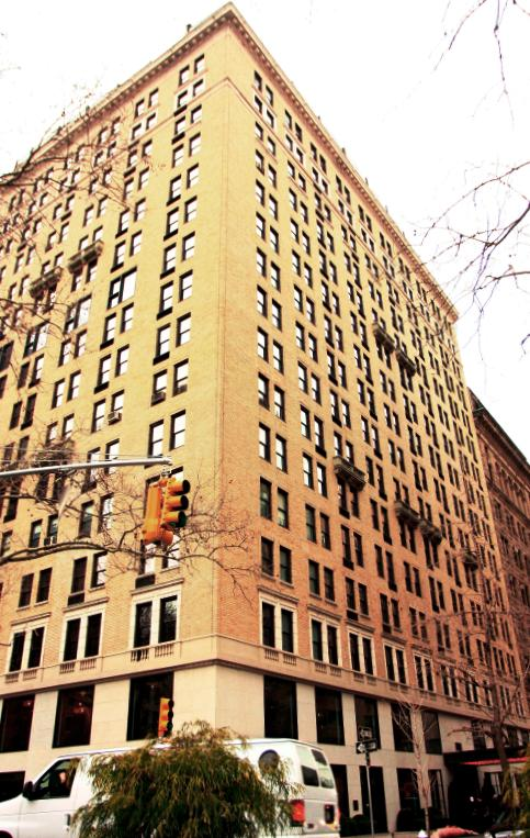 This photo is of Wikipedia Takes Manhattan location code 118, Gramercy Park Hotel.